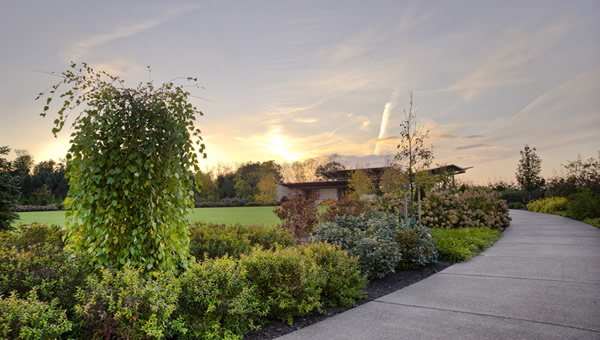 Penn State Arboretum at sunset